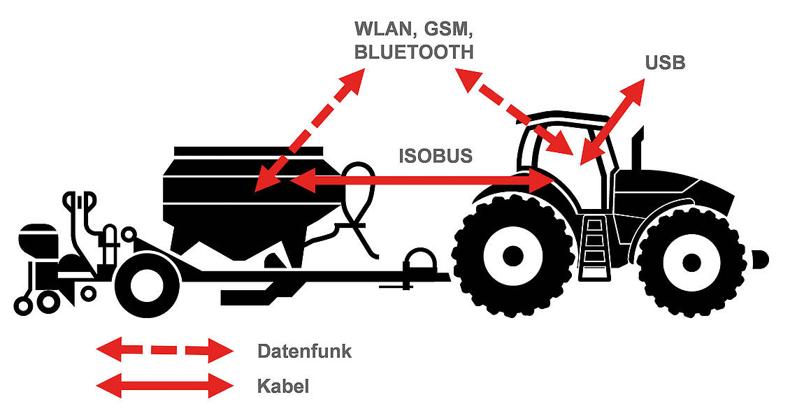 Possibilities of IoT (Internet of Things) for agricultural machinery for networked communication with operating computers, cloud computers or mobile end devices